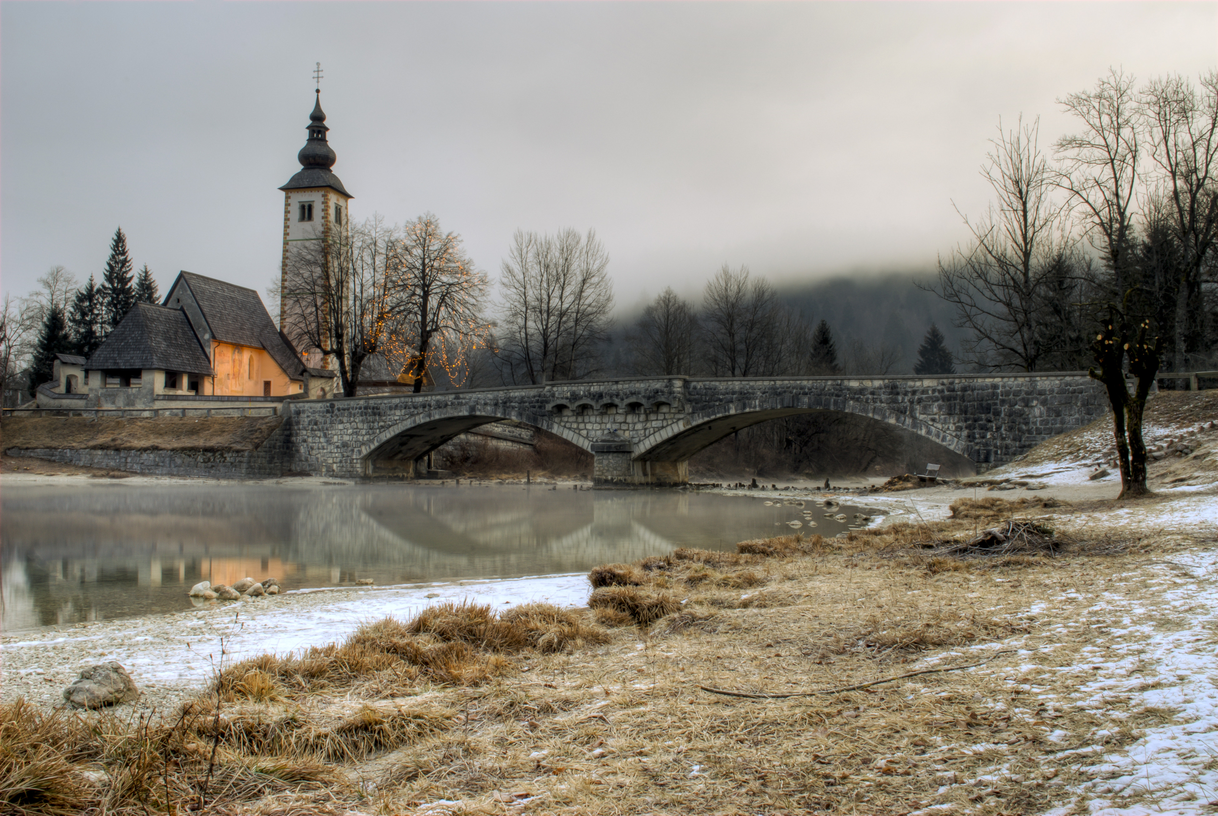 Church of st. John the Baptist at Lake Bohinj